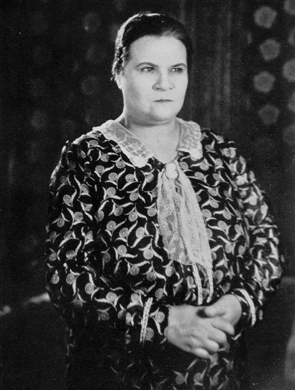 Ad from Standard Casting Directory for actress Lillian Elliott.